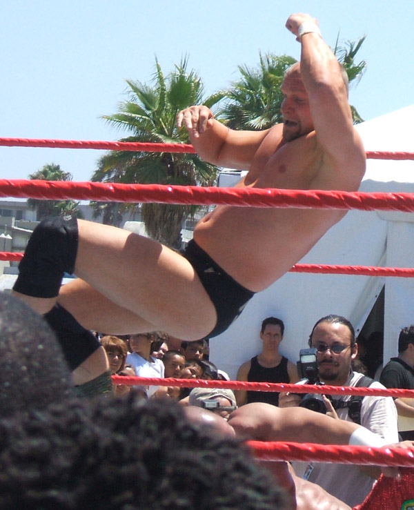 Professional wrestler Val Venis executes an elbow drop during a WWE promotional event on August 18, 2007 in Venice Beach. Photo was taken by me and released to public domain. WTStoffs 08:21, 19 August 2007 (UTC)